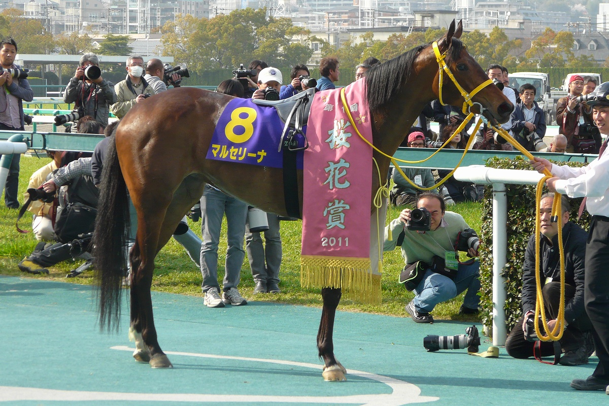 Marcellina20110410